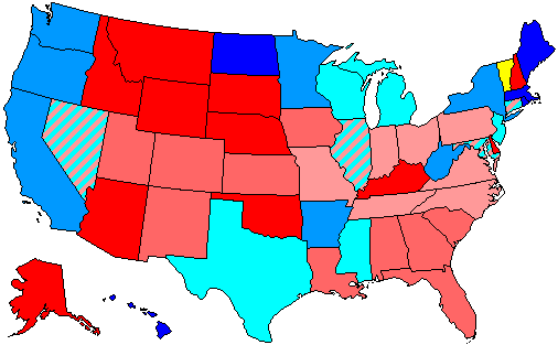 Summary of party control of U.S. house seats in the 107th United States Congress following election. Stripes indicate a tie between two or more parties. Legend: 80.1-100% Democratic seat majority 60.1-80% Democratic seat majority 60% or less Democratic seat plurality 60% or less Republican seat plurality 60.1-80% Republican seat majority 80.1-100% Republican seat majority 80.1-100% Independent seat majority